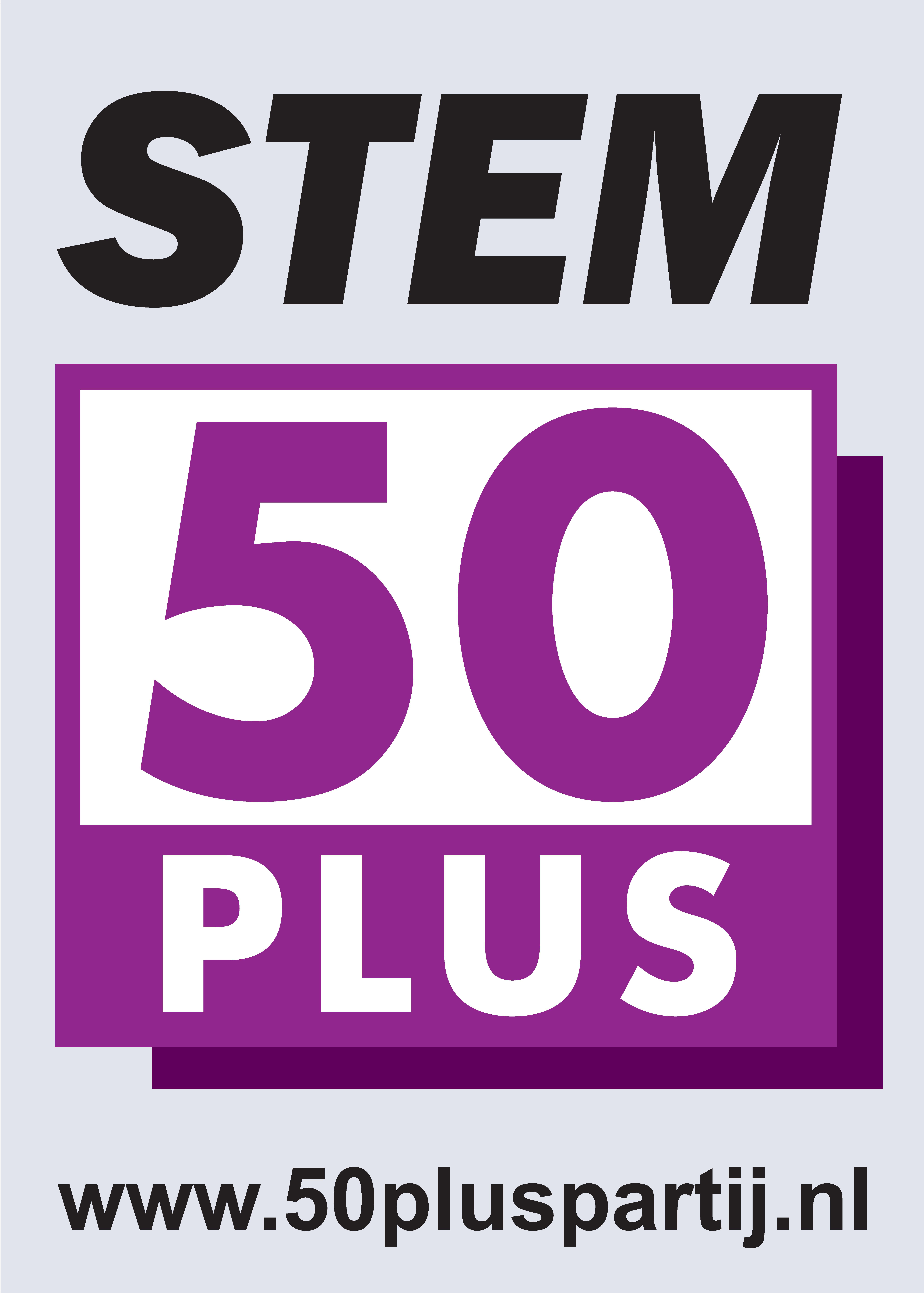 campaign poster for the Dutch General elections in 2010 and 2012